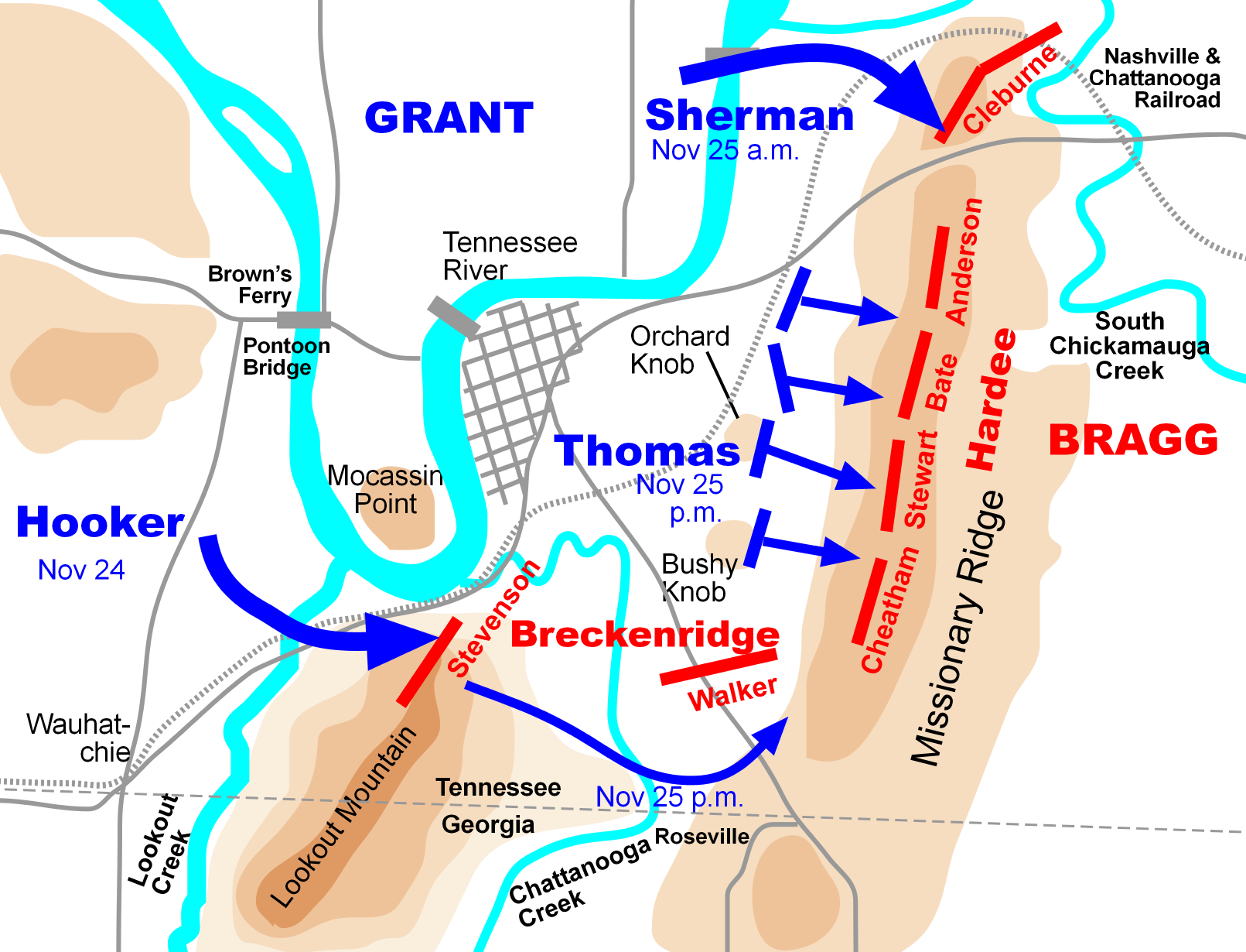 Map of the Battle of Chattanooga III of the American Civil War. Drawn by Hal Jespersen in Macromedia Freehand. Graphic source file is available at